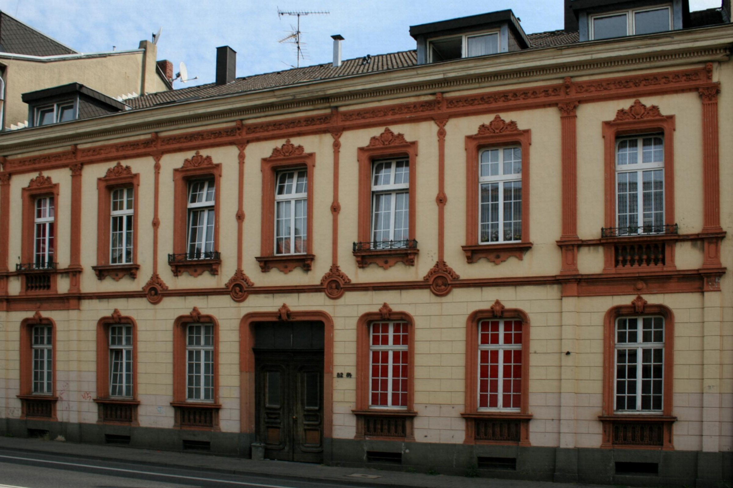 Cultural heritage monument No. F 012 in Mönchengladbach